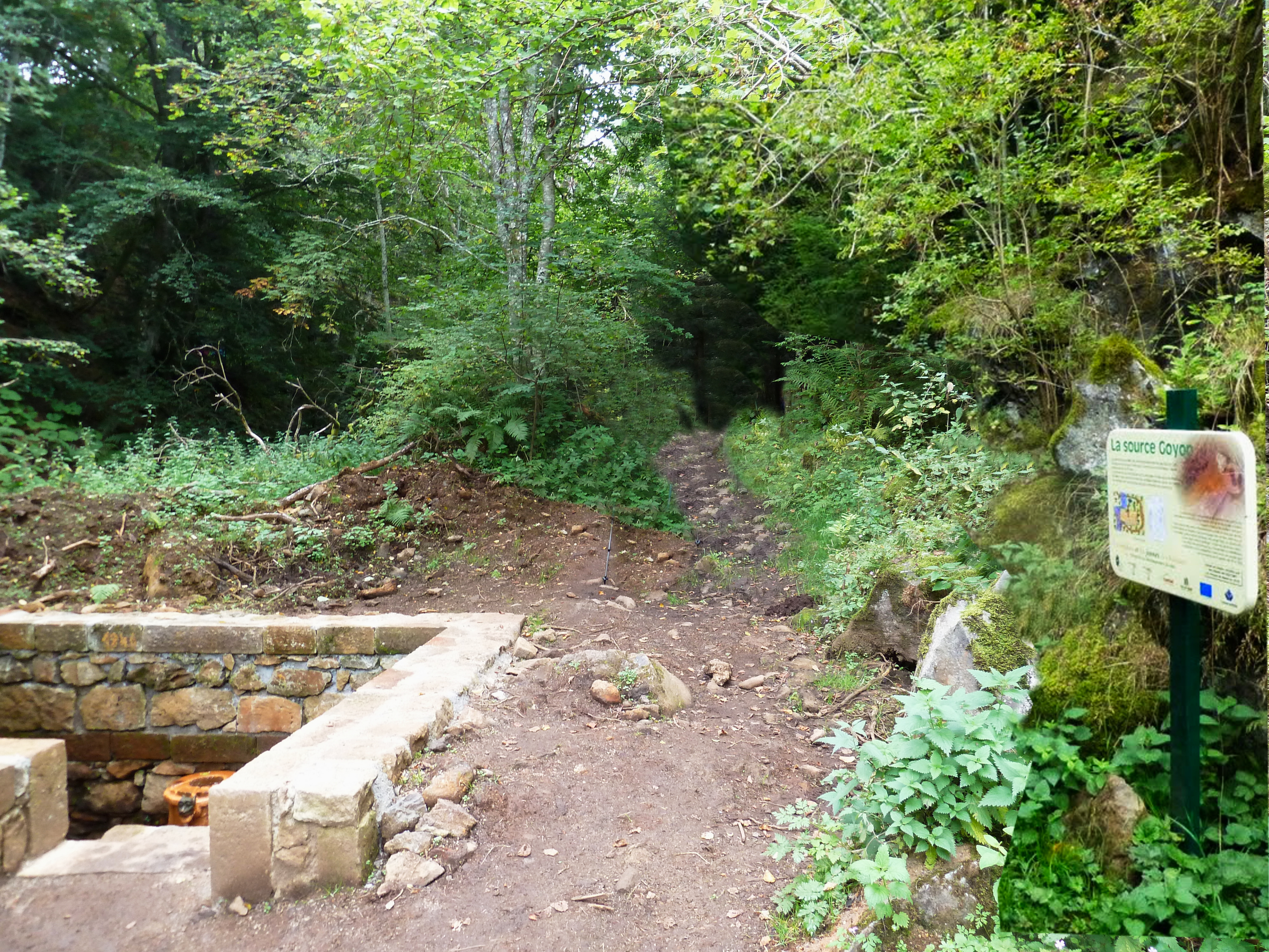 La source Goyon sur la Couze Pavin au Rocher de Berthaire (puy de la Perdrix) Monts Dore Puy-de-Dôme.- France